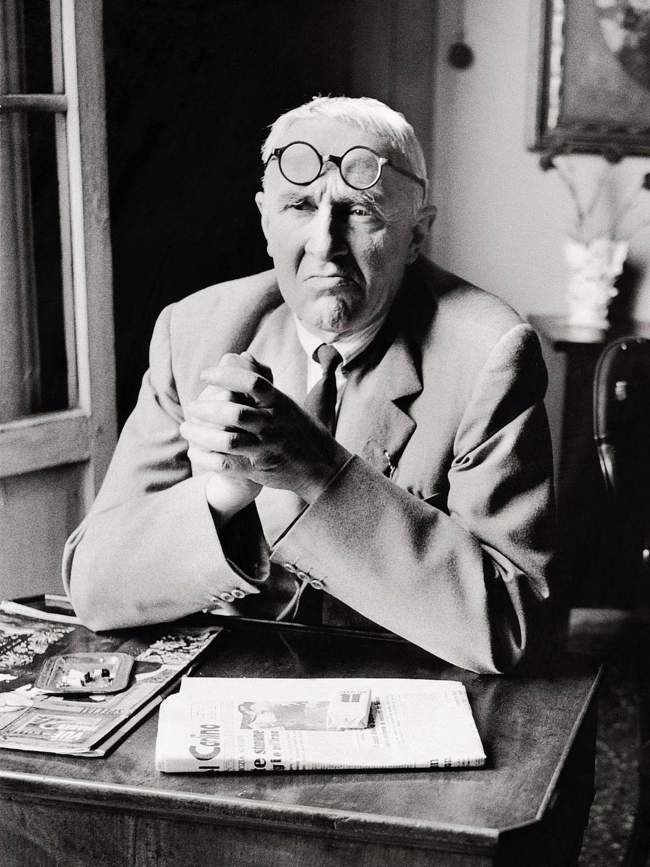 Photograph of the Italian painter Giorgio Morandi (1890–1964).